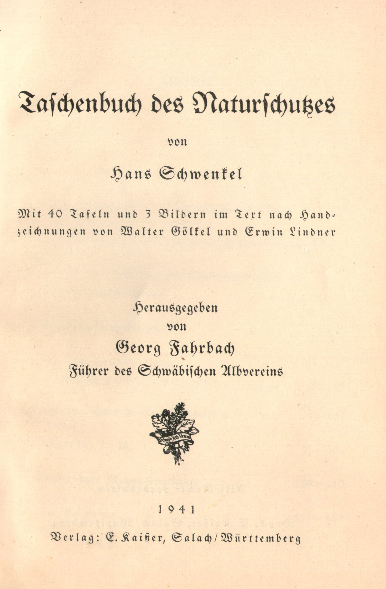 Title page of: Georg Fahrbach (Hrsg., Geleitwort und Coautor) / Hans Schwenkel (Autor): Taschenbuch des Naturschutzes, Salach, Verlag E. Kaißer, Salach 1941. Collection Markus Wolter